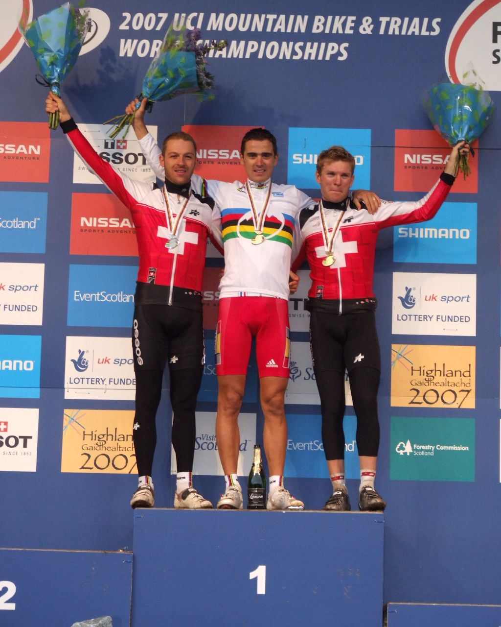 2007 UCI mountain bike & trials world championships Cross-country elite 1.Julien Absalon 2.Ralph Näf 3.Florian Vogel